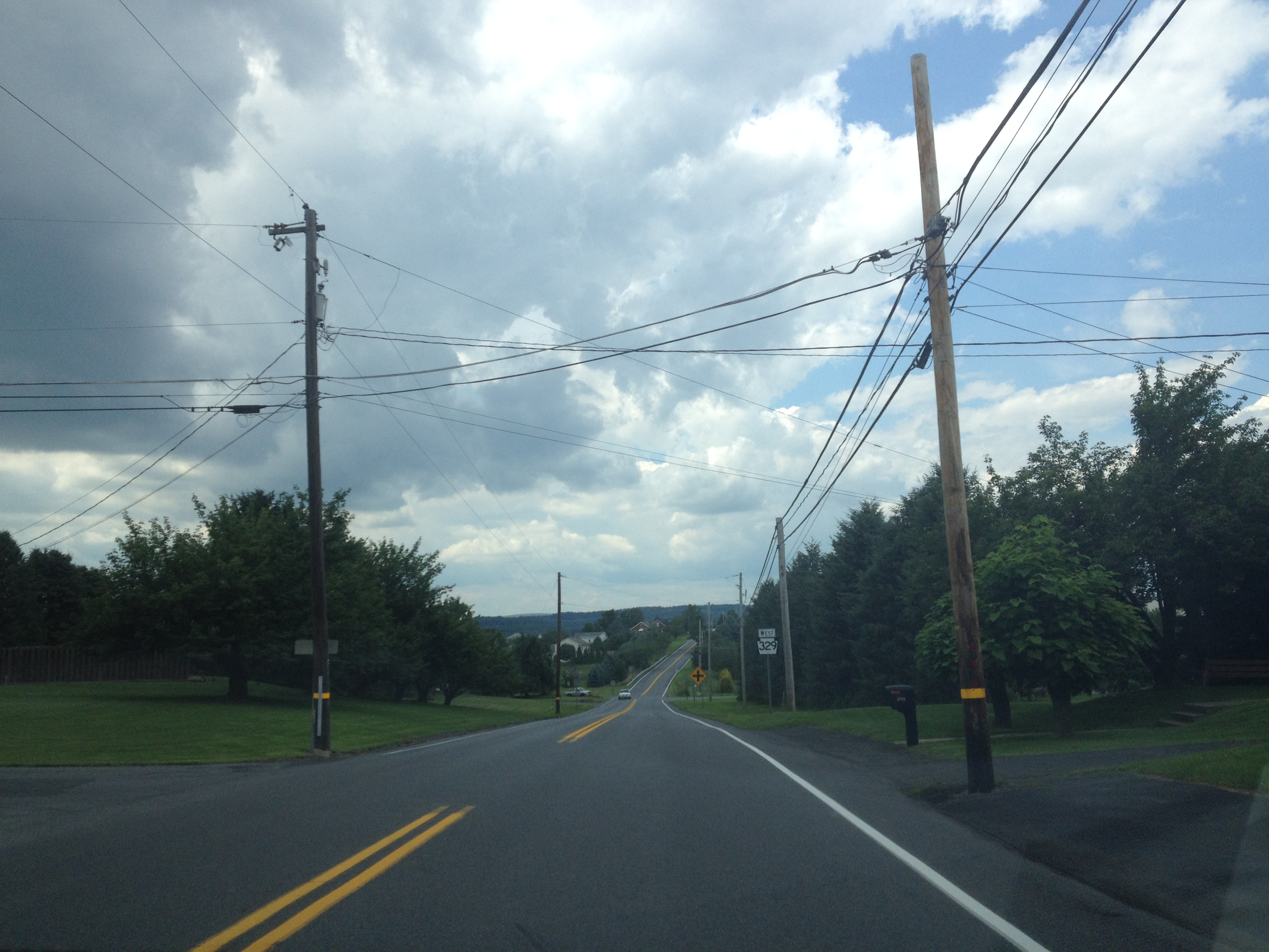 Westbound Pennsylvania Route 329 (Old Post Road) approaching the left turn onto Bellview Road in North Whitehall Township